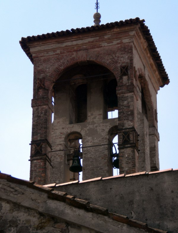 Campanile della Chiesa di San Bonaventura delle Eremite in Padova